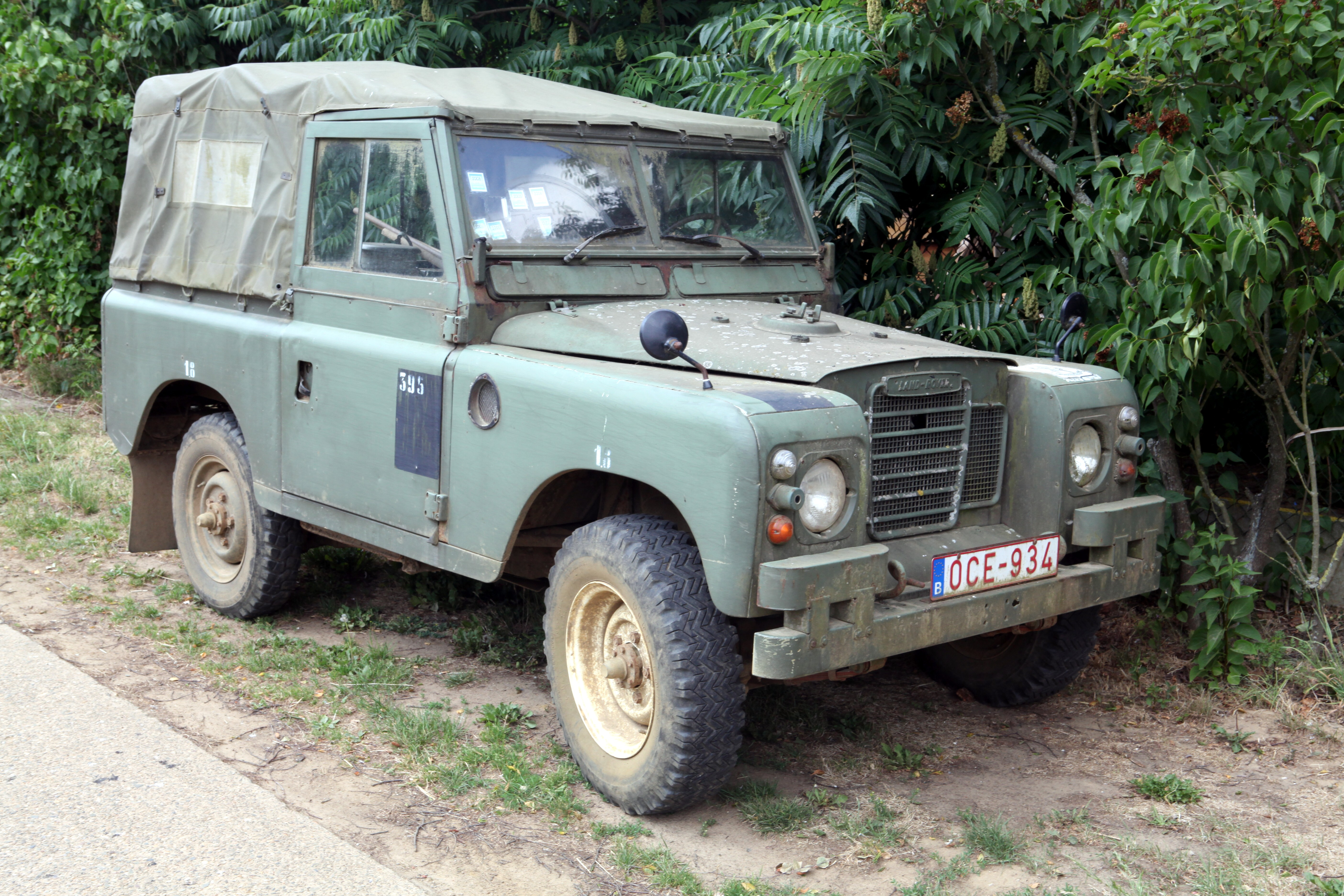 Belgian Army Series III Land Rover